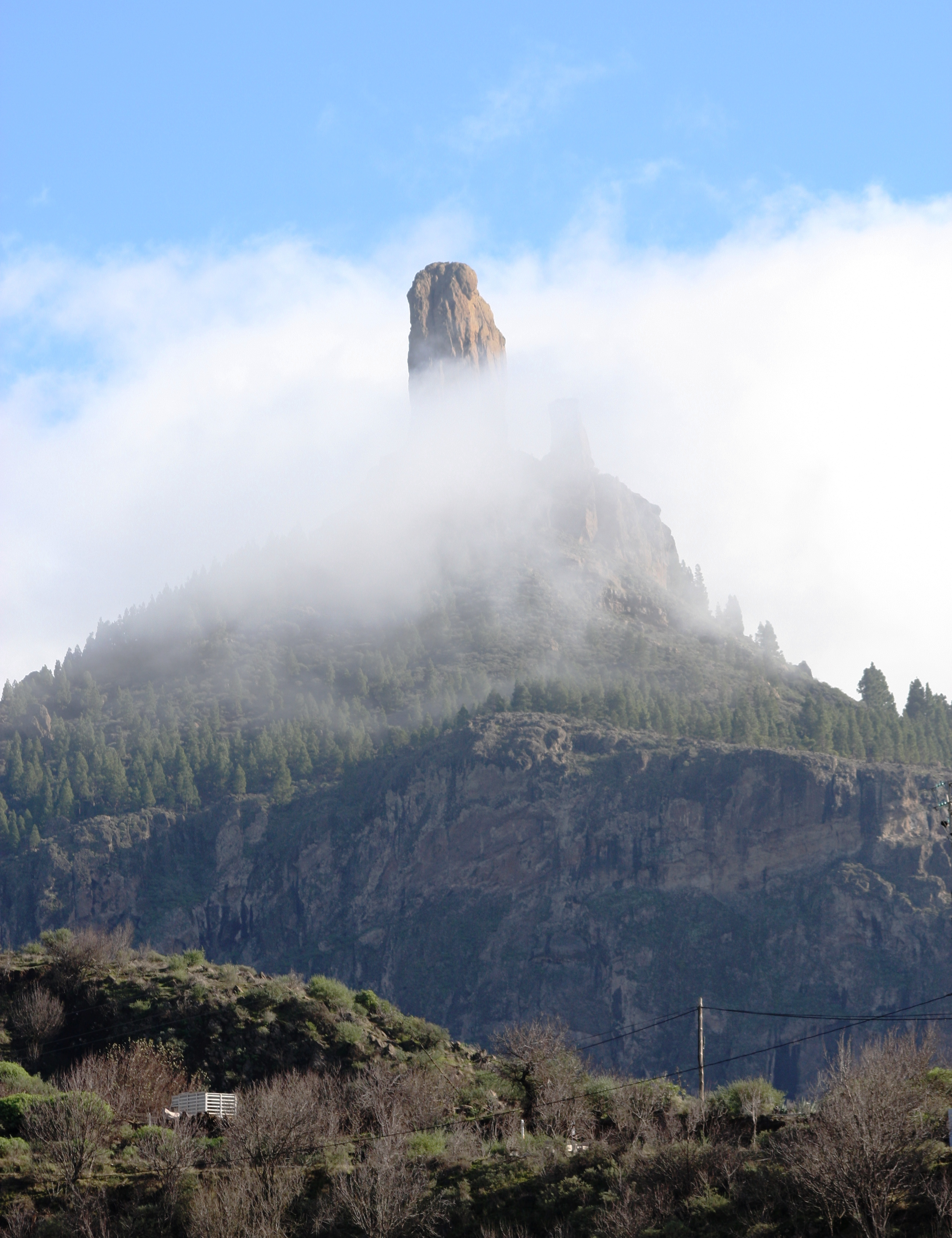 Roque Nublo mountain, central mountains of Gran Canaria